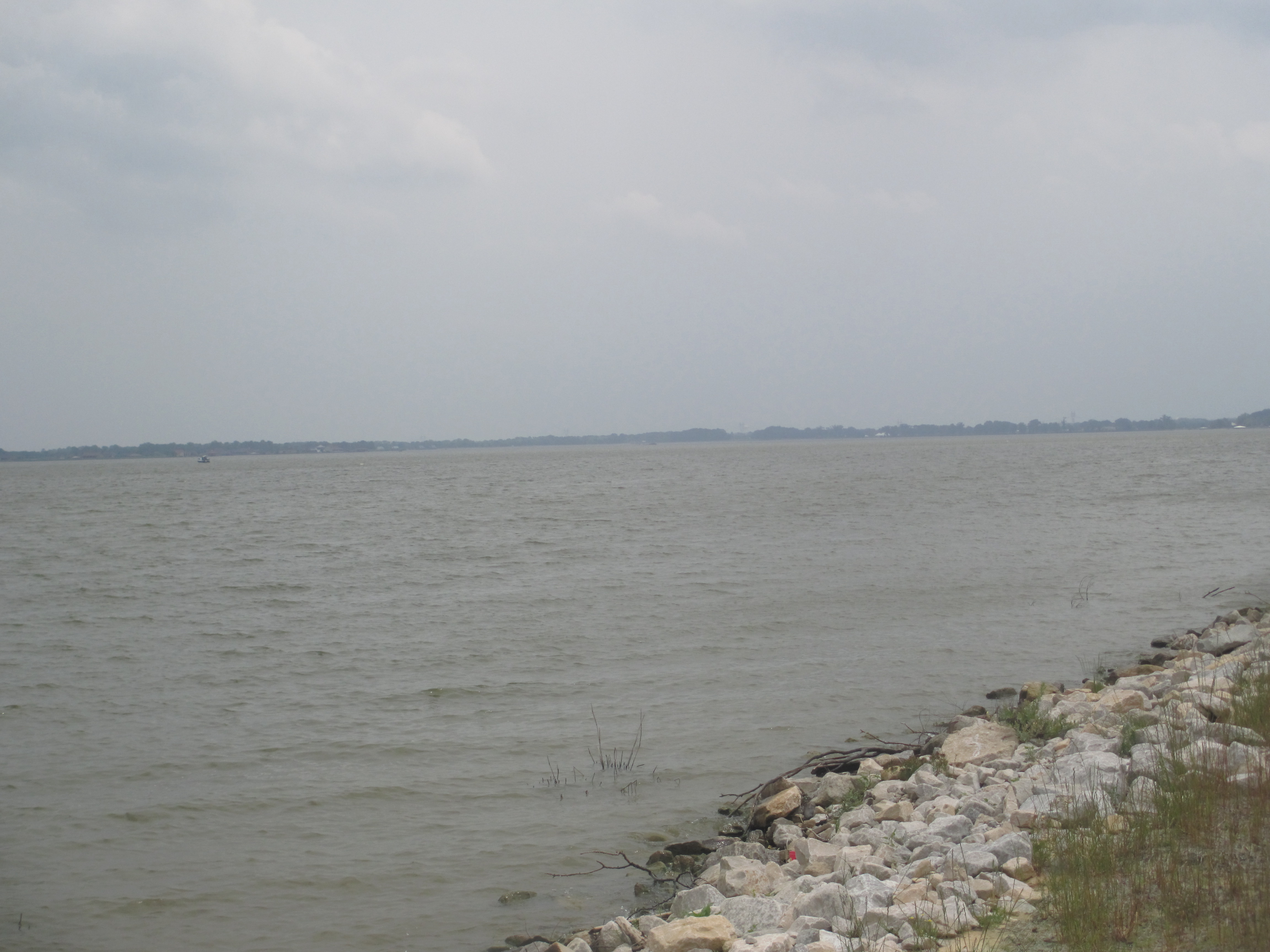 I took photo of Poverty Point Lake near Delhi, LA, with Canon camera.